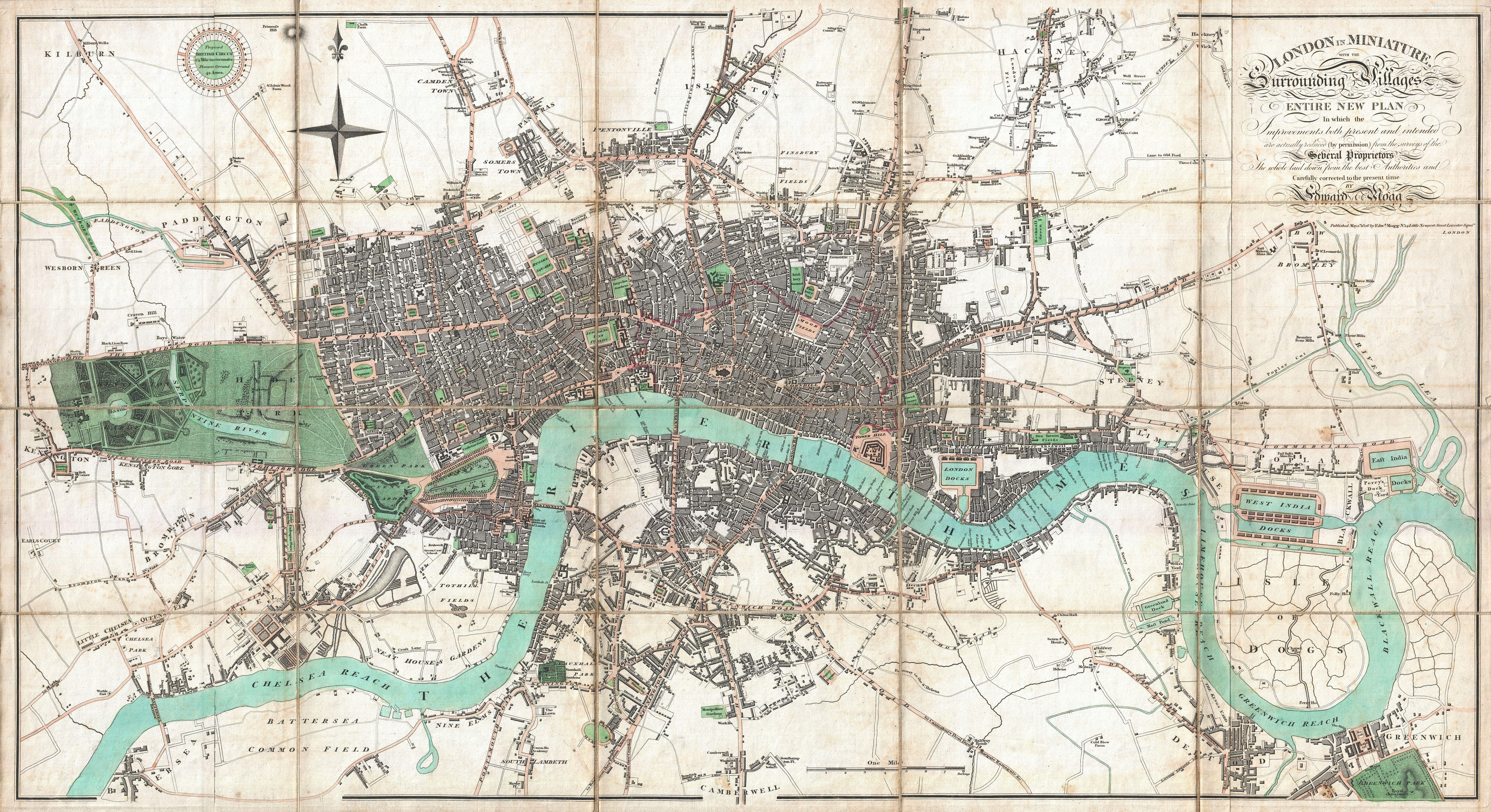 An extraordinary first edition example of Edward Mogg's important 1806 case map of London, England. Covers the central part of London from Kensington to Greenwich and the East India Docks. Of this stunning map, Mogg writes ...like the clue of Ariadne, [it] will conduct him through the labyrinth, and, occasionally consulted, will enable him, unattended, to thread with ease the mazes of this vast metropolis Mogg's map of London offers extraordinary and beautifully engraved detail throughout noting all streets, parks, and numerous important buildings. Illustrates a relatively primitive state of development on the south shore of the Thames. The downtown area consumed by the London fire of 1666 is highlighted in red. Mogg's intention in this map is to highlight various city works and urban renewal projects which were being perused in the early 19th century. We have found a few references to various later editions of this map at auction and in libraries, but this is the only first edition we know of to have appeared on the market in the last 35 years.